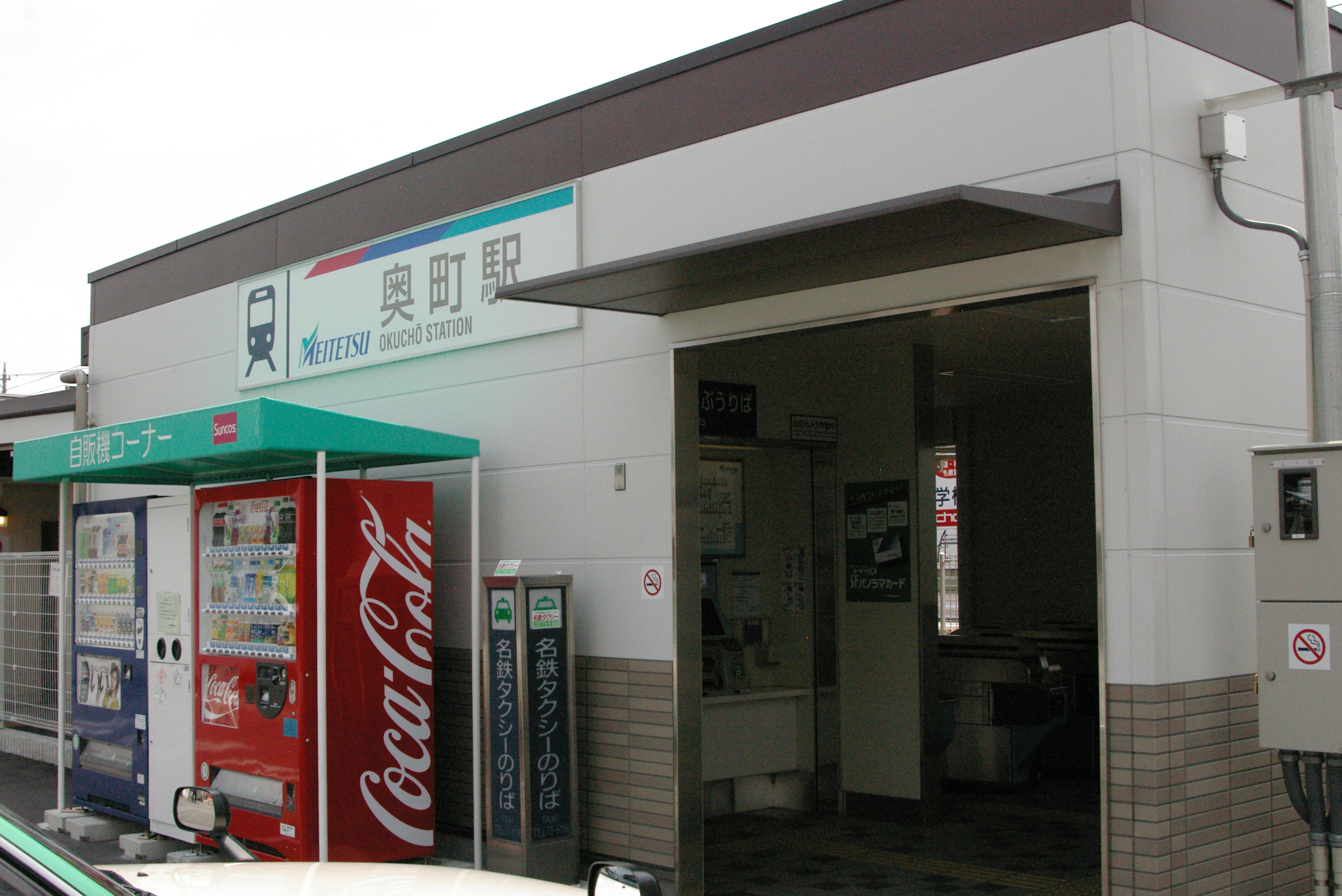 Okuchō Station (building)